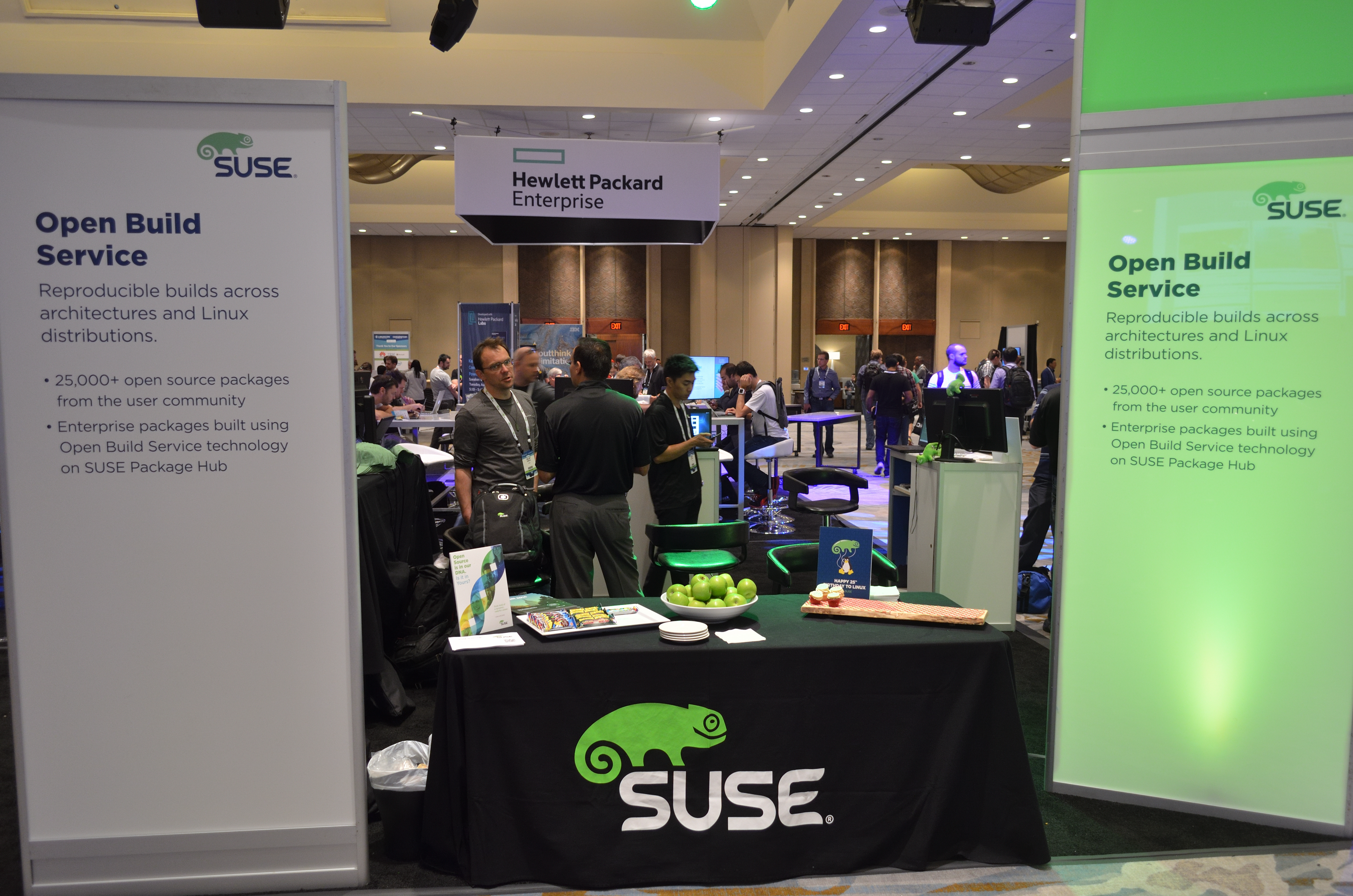 SUSE at Linuxcon 2016